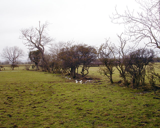 Decaying hedge. All around Boldron, old field boundaries established by the "Plan and Apportionment for the 1768 Parliamentary Act of Enclosure of Boldron Moor" (Durham County Record Office) are in varying stages of decay as modern agriculture moves to larger fields. In some cases, the existence of a hedge and ditch can no longer be discerned at all (1713699), but in most cases there is at least a hedge-bank and adjoining ditch, and often the odd old hawthorn or bigger tree. This boundary seems to have been one of the more recent to be allowed to fall into disuse, as the hedge is largely complete, though obviously no trimming or laying has been carried out recently and there is no fence left at all.